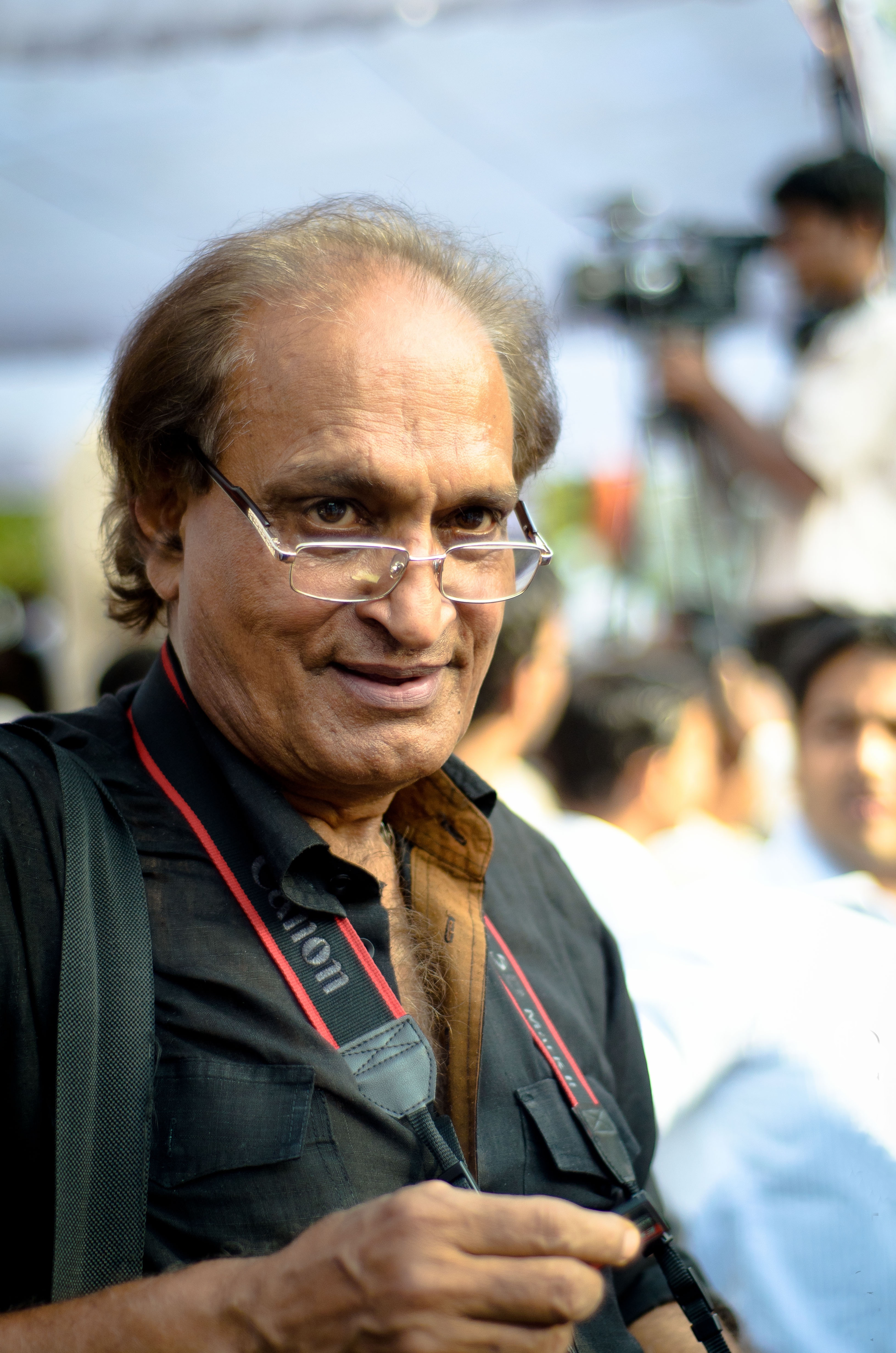 Eminient photographer Raghu Rai on the job at Anna Hazare's Anti-Corruption protest at Jantar Mantarin April 2011.